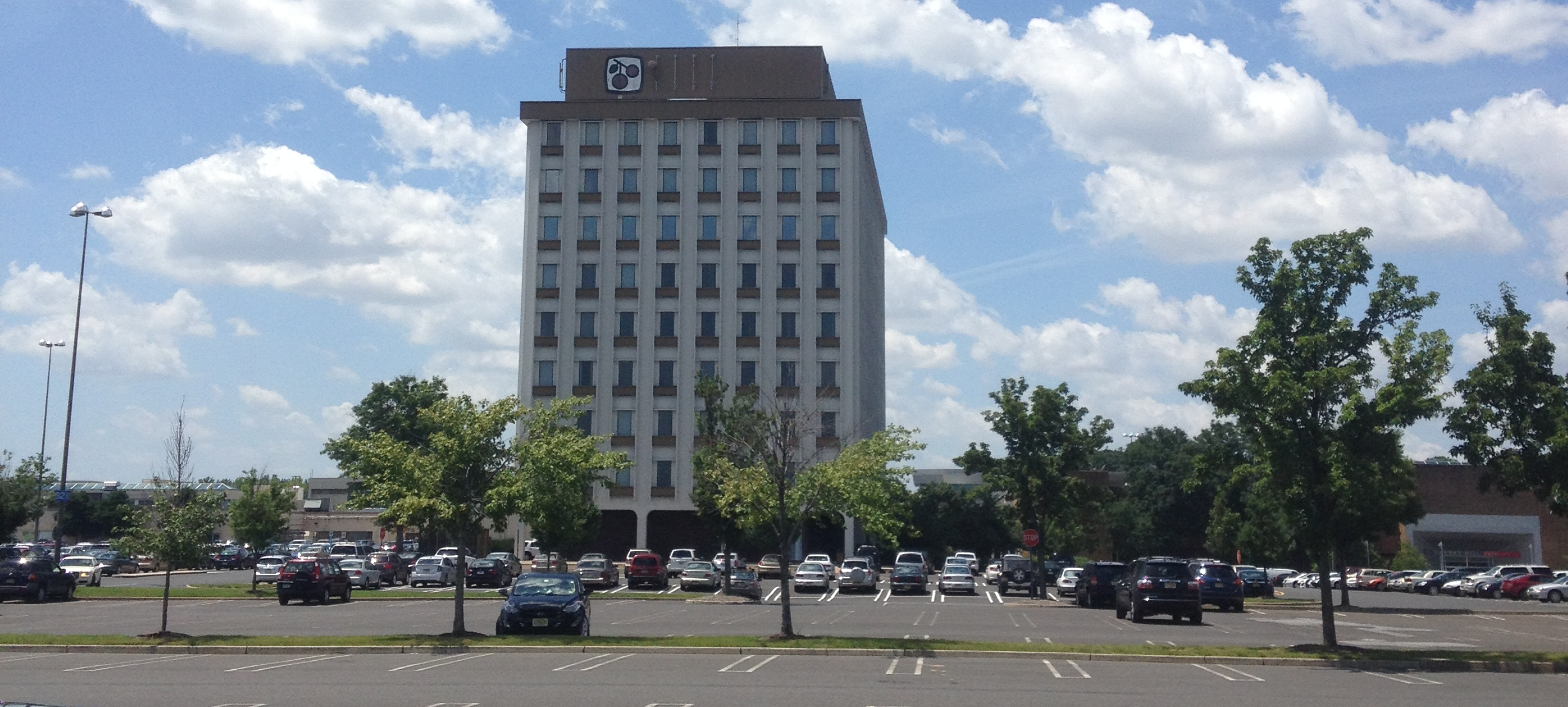 The One Cherry Hill office building at the Cherry Hill Mall in Cherry Hill, New Jersey